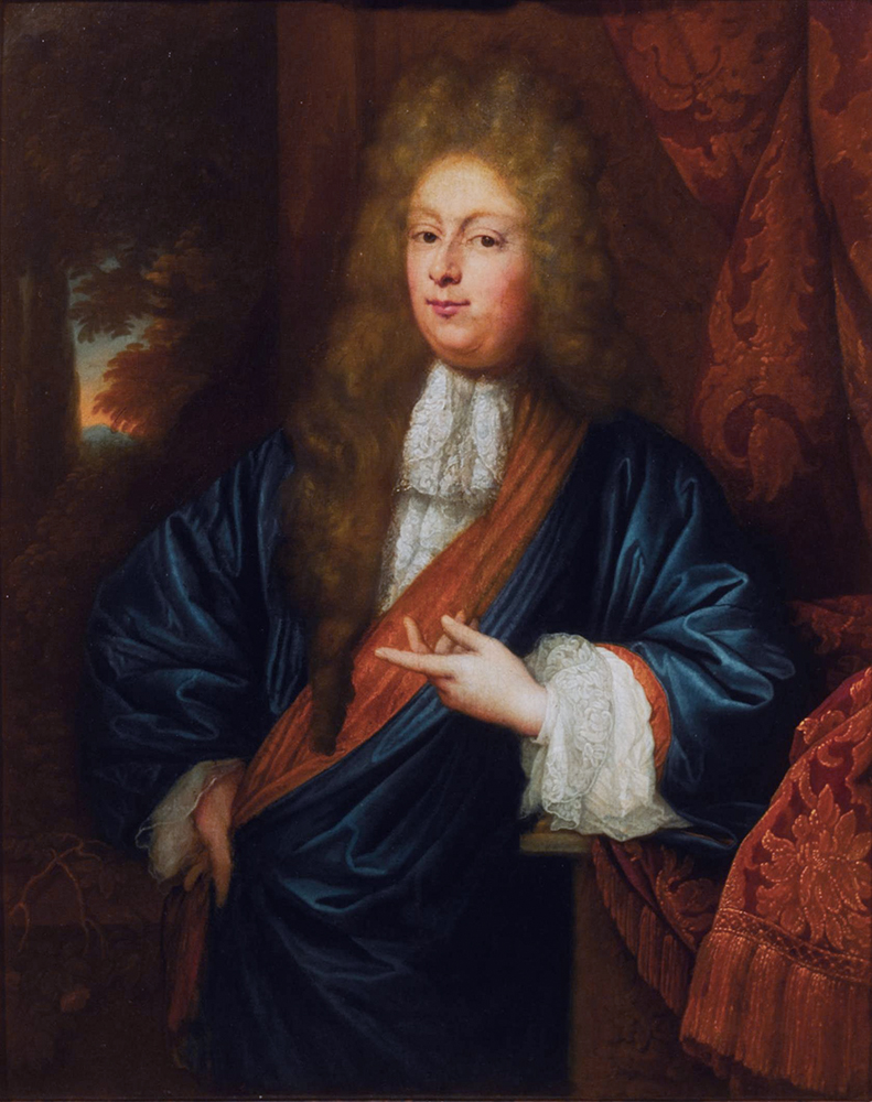 Pieter Dierquens (1668-1714) oil on canvas 57,5 x 46 cm signed b.l: I.V.H. f / 1690